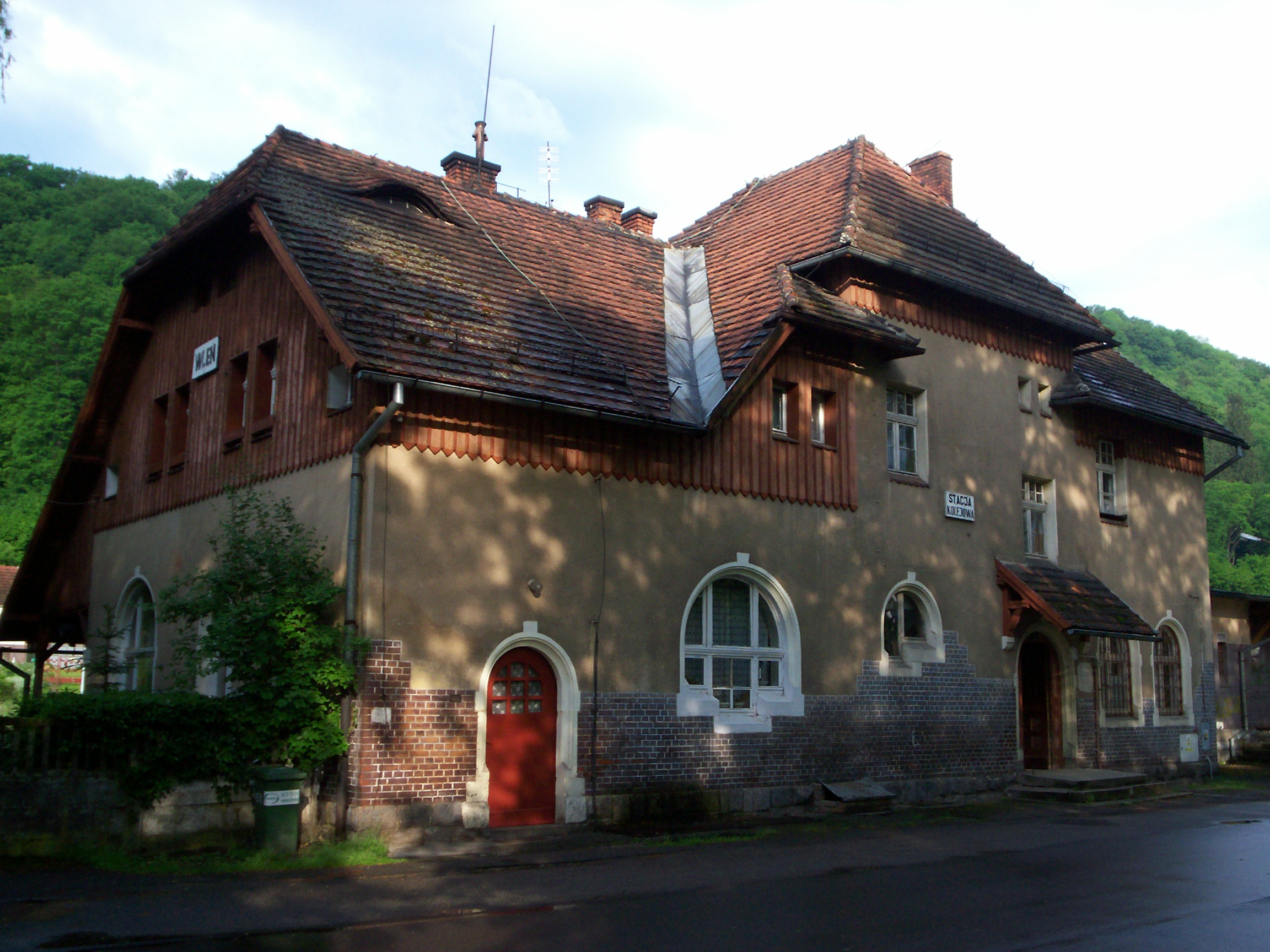 Train station in Wleń.